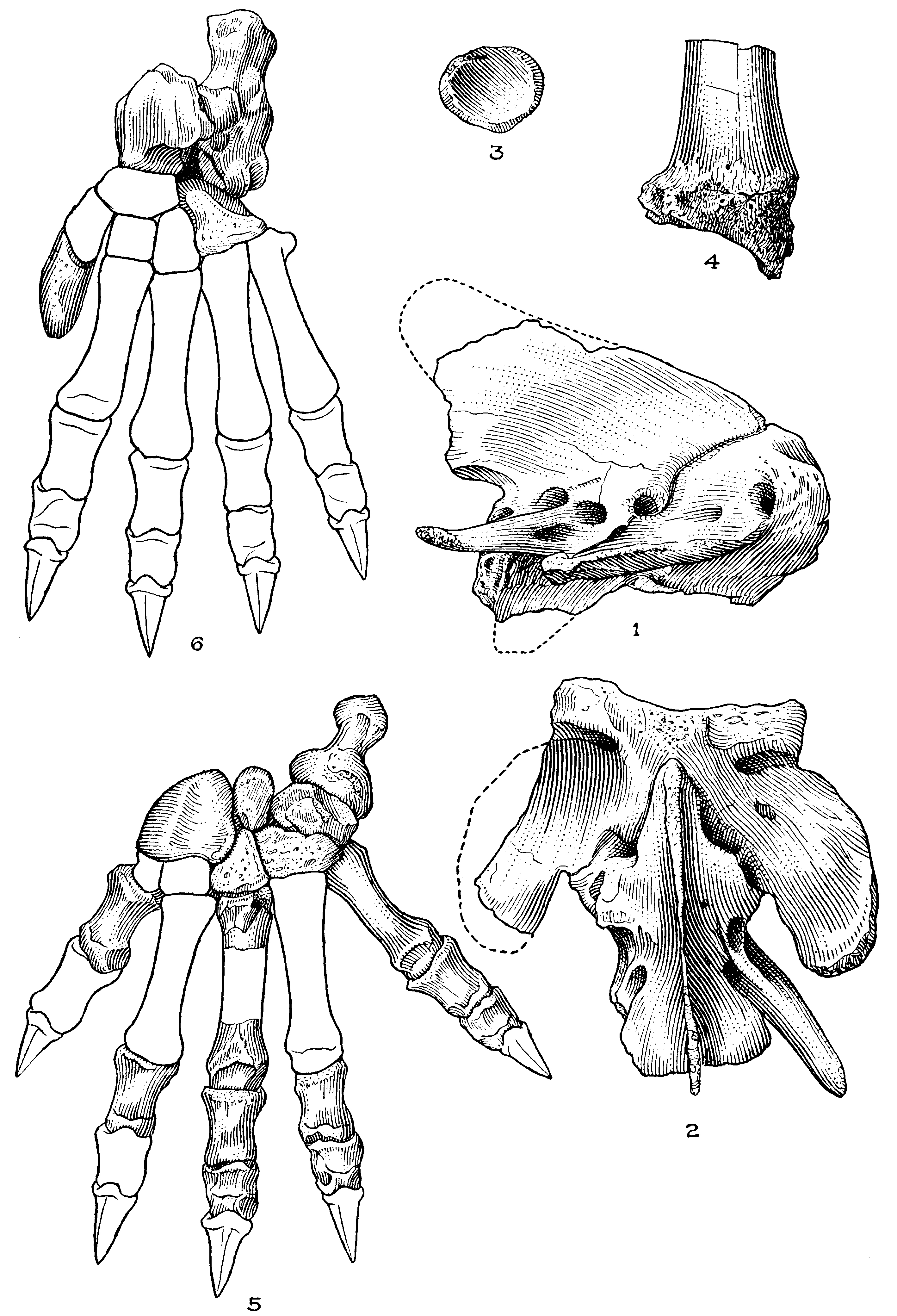 Thylacosmilus atrox. Paratype, P14344. X 2. 1, Lateral view of the atlas and axis. 2, Dorsal view of the same. T. atrox. Holotype, P14531. X 23. 3, Proximal end of the right radius. 4, Distal end of the same. 5, Left fore foot with scaphoid and fifth metacarpal restored after those of the right foot. 6, Left hind foot, of which the astragalus, calcaneum, cuboid and vestigial met. i are known. Parts in outline are restored by comparison with the foot of Thylacynus.